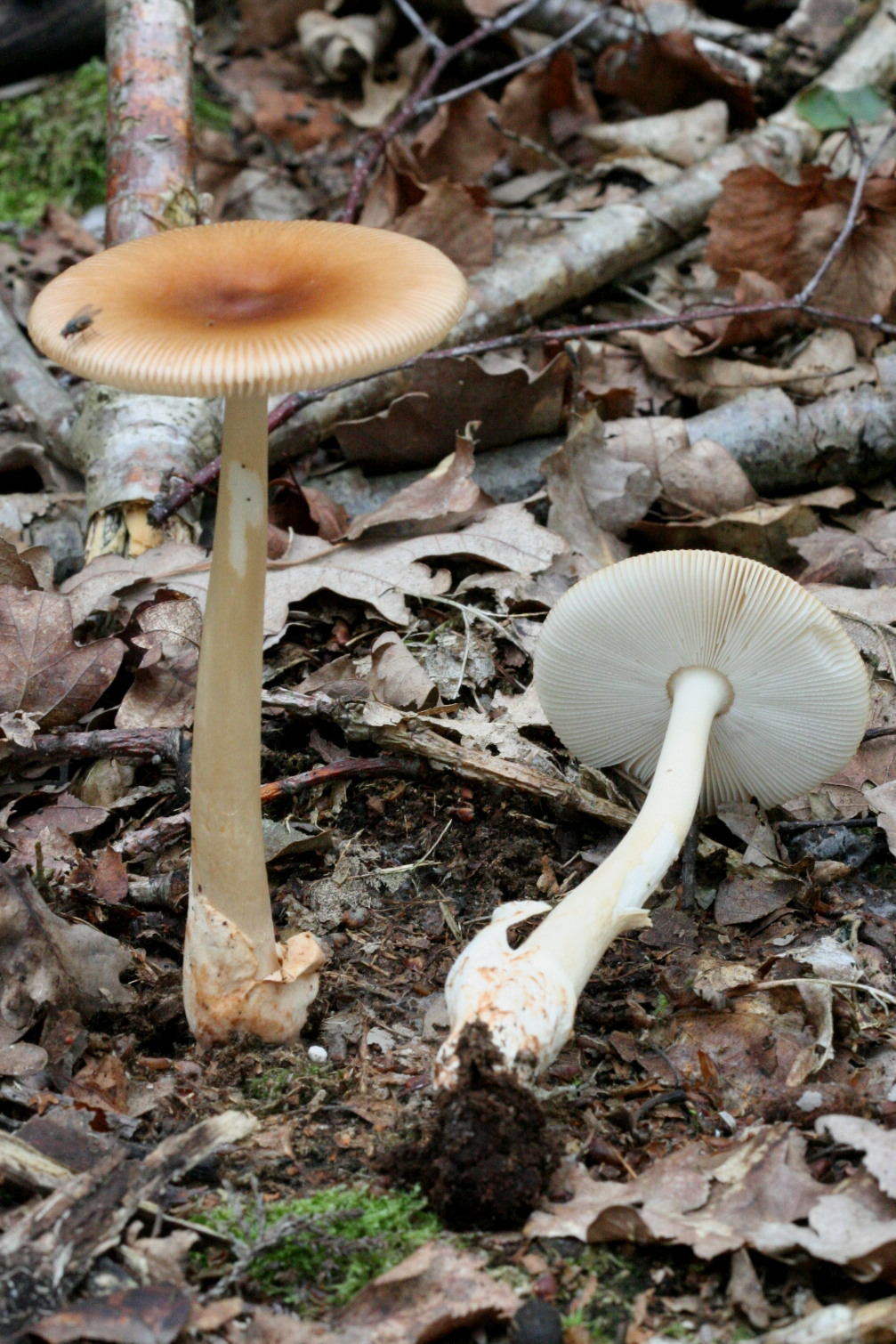 Amanita fulva in a wood near Rambouillet, France.